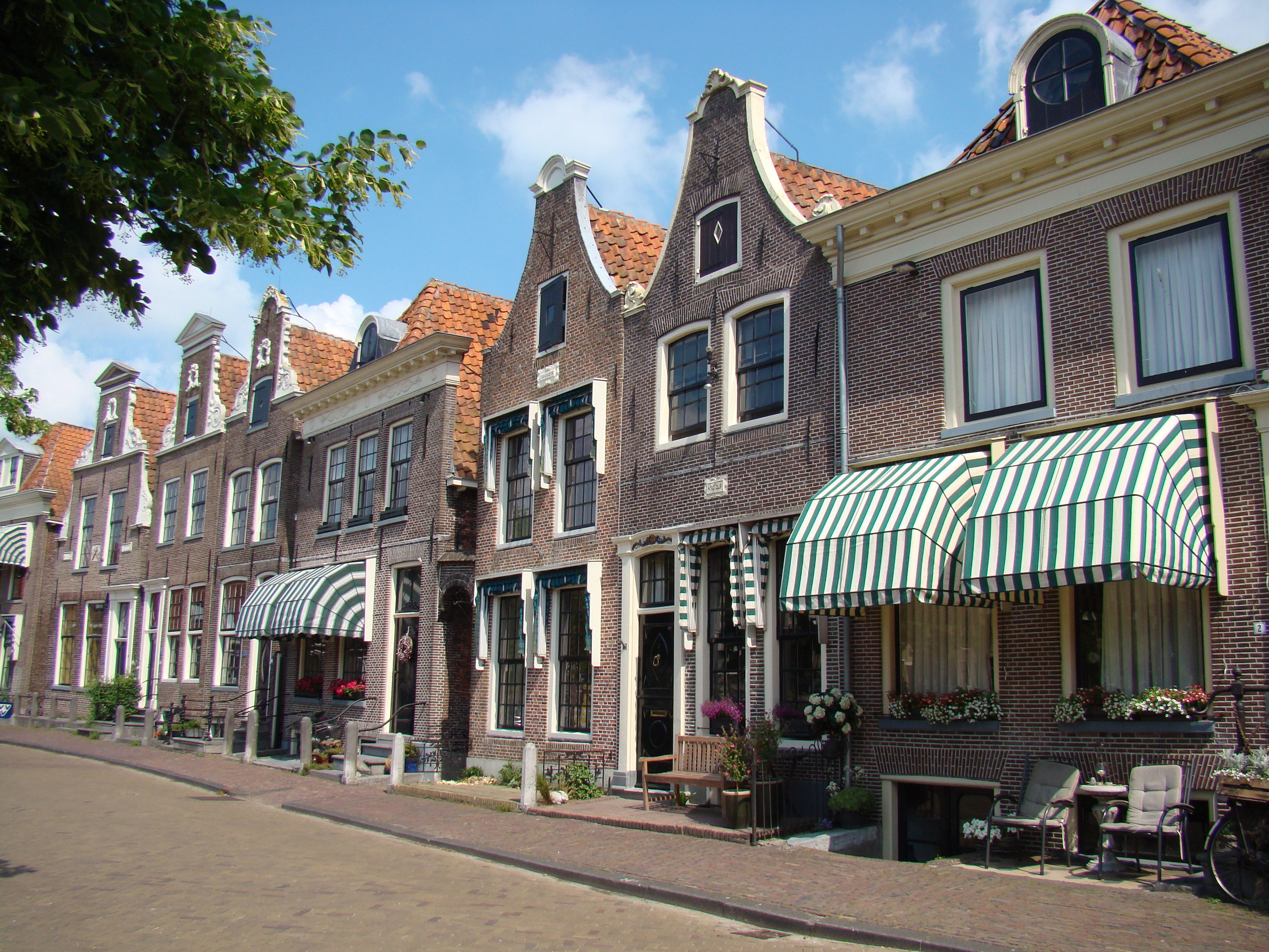 Impressions of Blokzijl